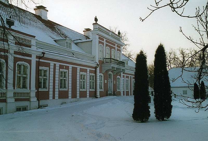 The manor house Sagadi on the winter on the northest Estonia.